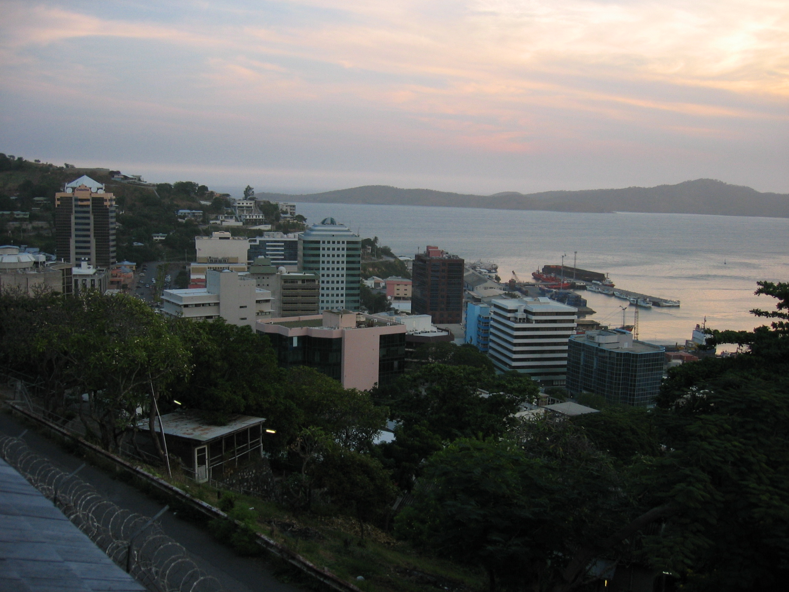 View of Port Moresby Town from nearby hill